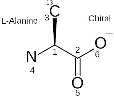 L-Alanine as an example for mol V3000 file